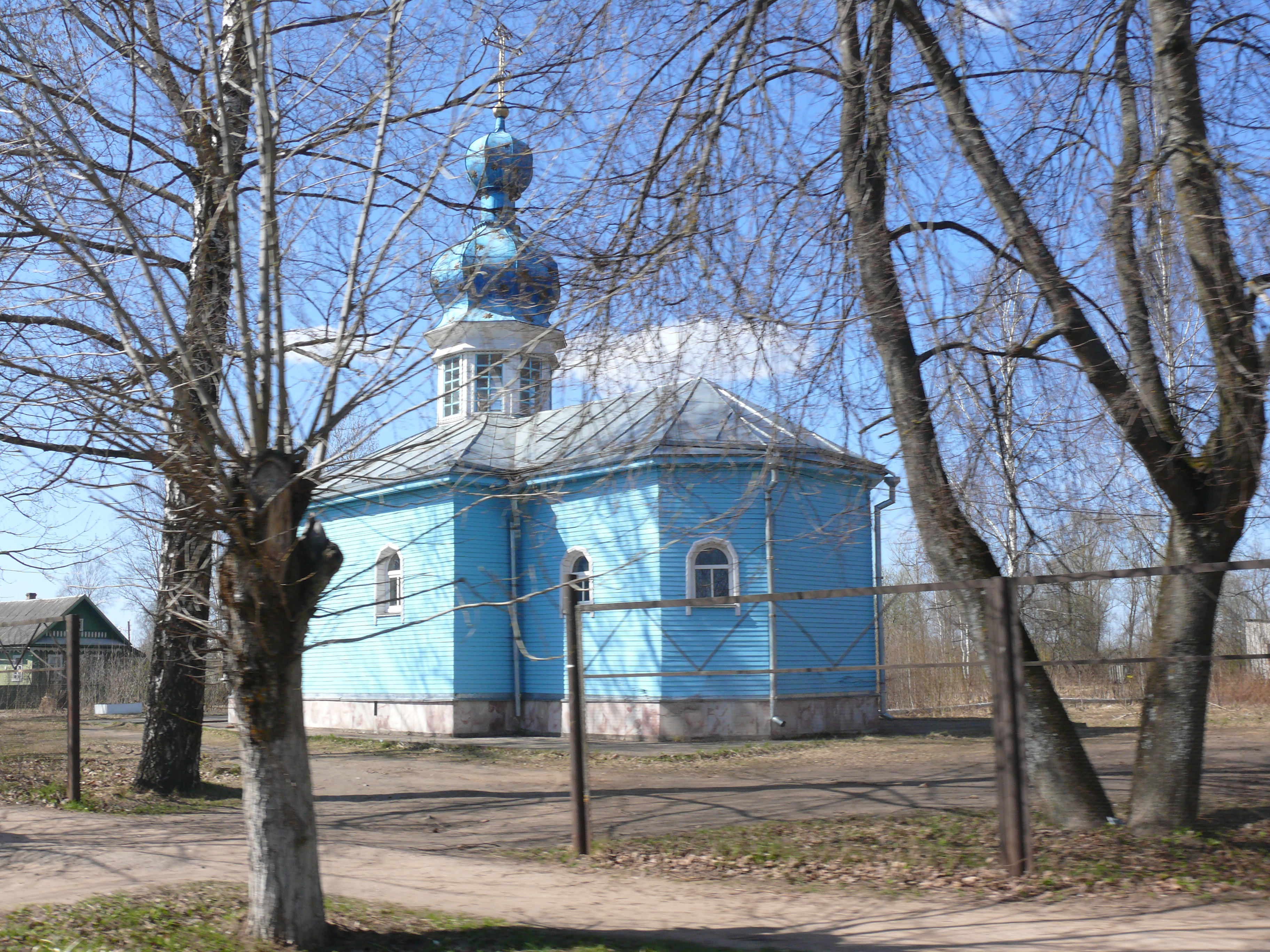 Parfino village in Novgorod oblast, Russia